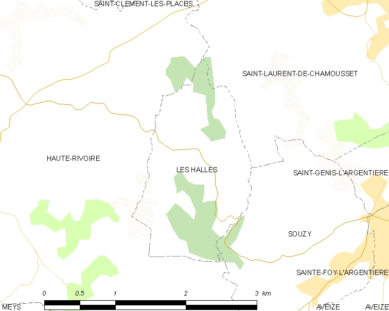 Map of French municipality